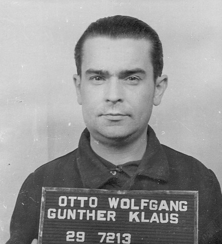 Wolfgang Otto was SS-Stabsscharführer and clerk in camp headquarters in the concentration Camp of Buchenwald. In the Buchenwald Camp Trial (part of the Dachau Trials) he was sentenced to 20 years of imprisonment (later modified to 10 years of imprisonment).